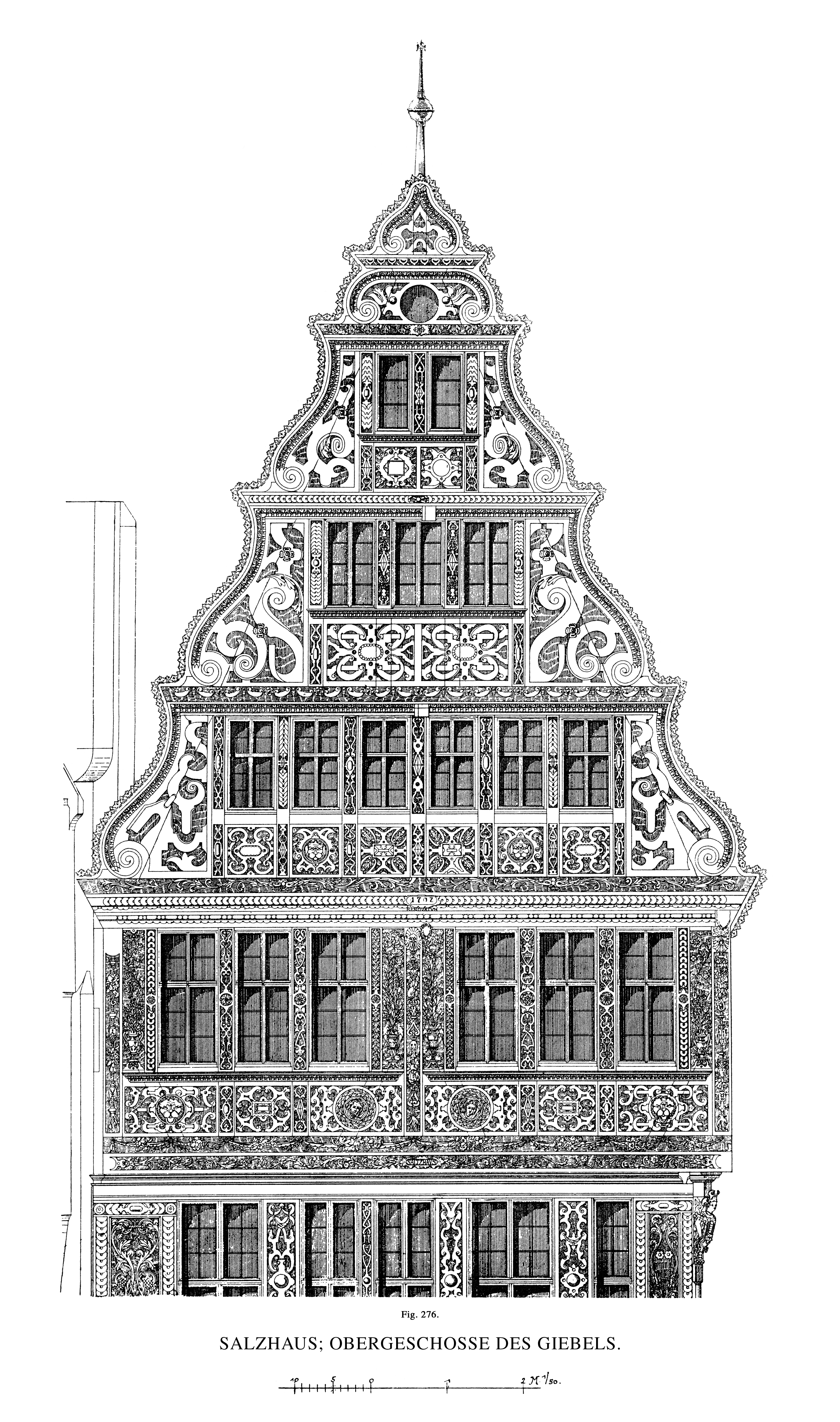 Frankfurt on the Main: Oversize of the Salt House as seen from the Roemerberg